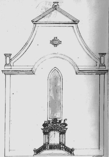 t